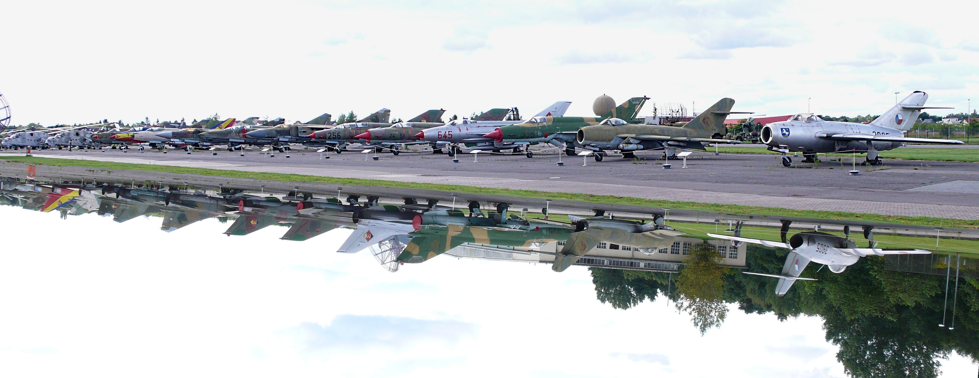 MiG on Airforce Museum of the Bundeswehr; Berlin-Gatow.